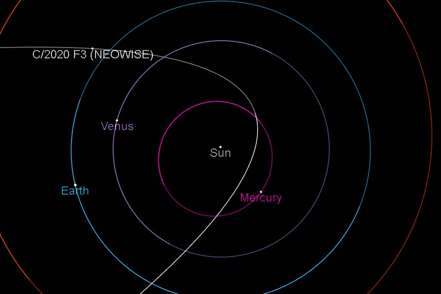 Sun in the center of the image, C/2020 F3 (NEOWISE) in the upper left.